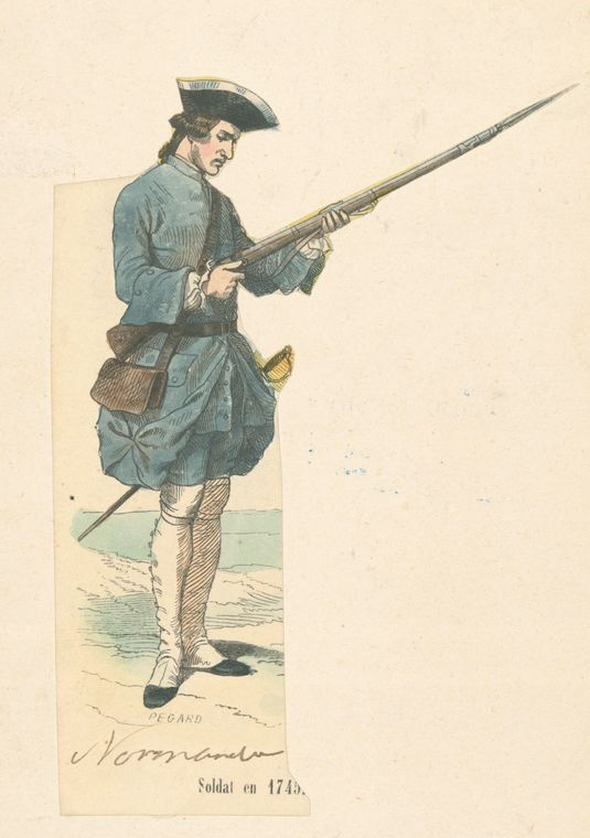 Picture of a french soldier (AD 1745)